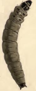 Stainton’s Natural History of the Tineina (1855–1873): Coleophora serratulella larva